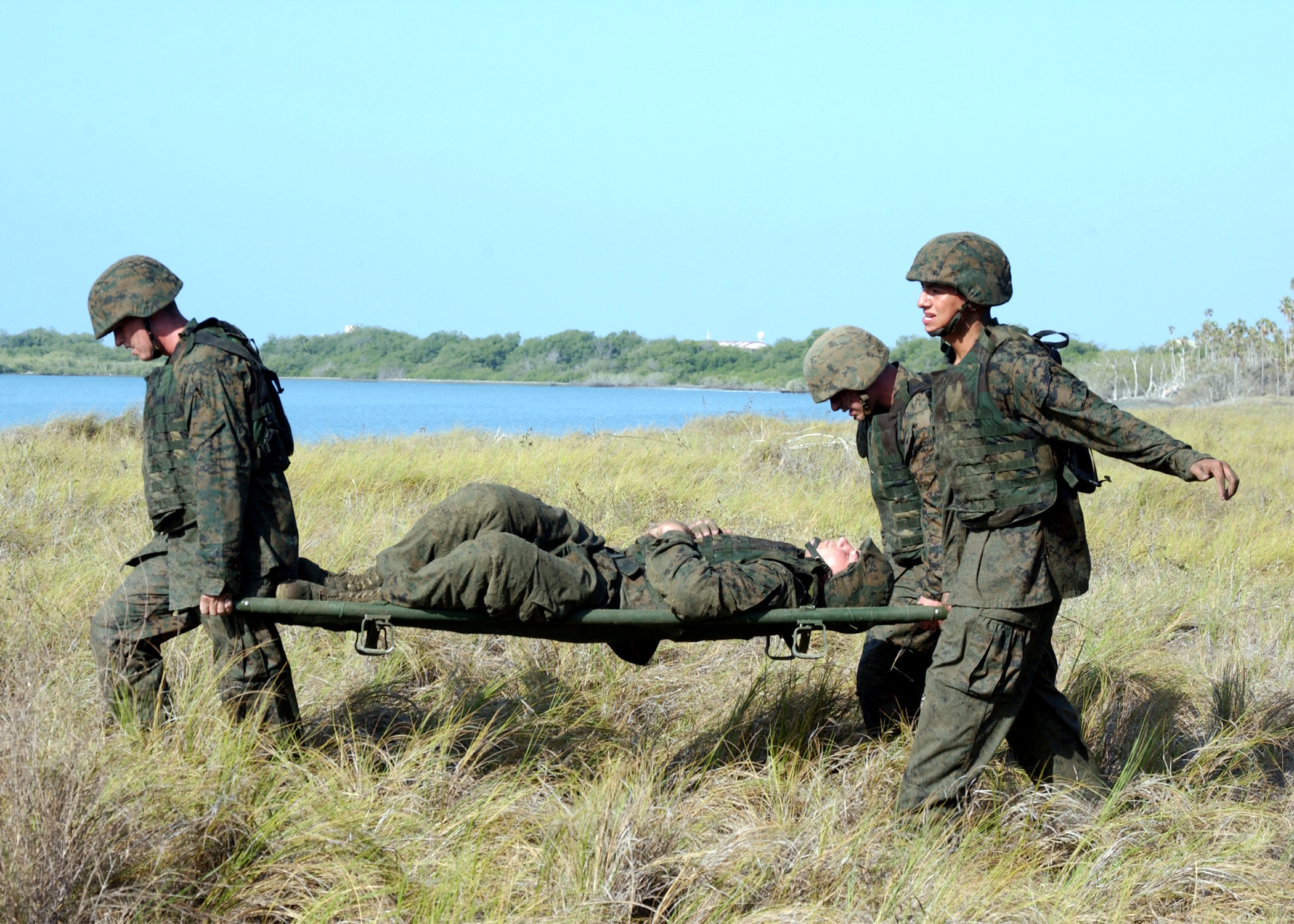 Guantanamo Bay, Cuba (June 23, 2004) - Lance Corporals Barret Clark, Brian Palonian and Michael Araya evacuate a simulated casualty, to a casualty collection station in Guantanamo Bay, Cuba, during a recently conducted Battle of Tarawa reenactment exercise. During stretcher drills, Marines practiced two, three and four man stretcher carries, as did the World War II "Devil Dogs." The exercise pitted Marines and Sailors with performing tasks similar to those carried out during the Marine assault of the Tarawa Atolls on Nov 20, 1943 during the Pacific Campaign of World War II. U.S. Navy photo by Photographer's Mate 1st Class Terry w. Matlock (RELEASED)